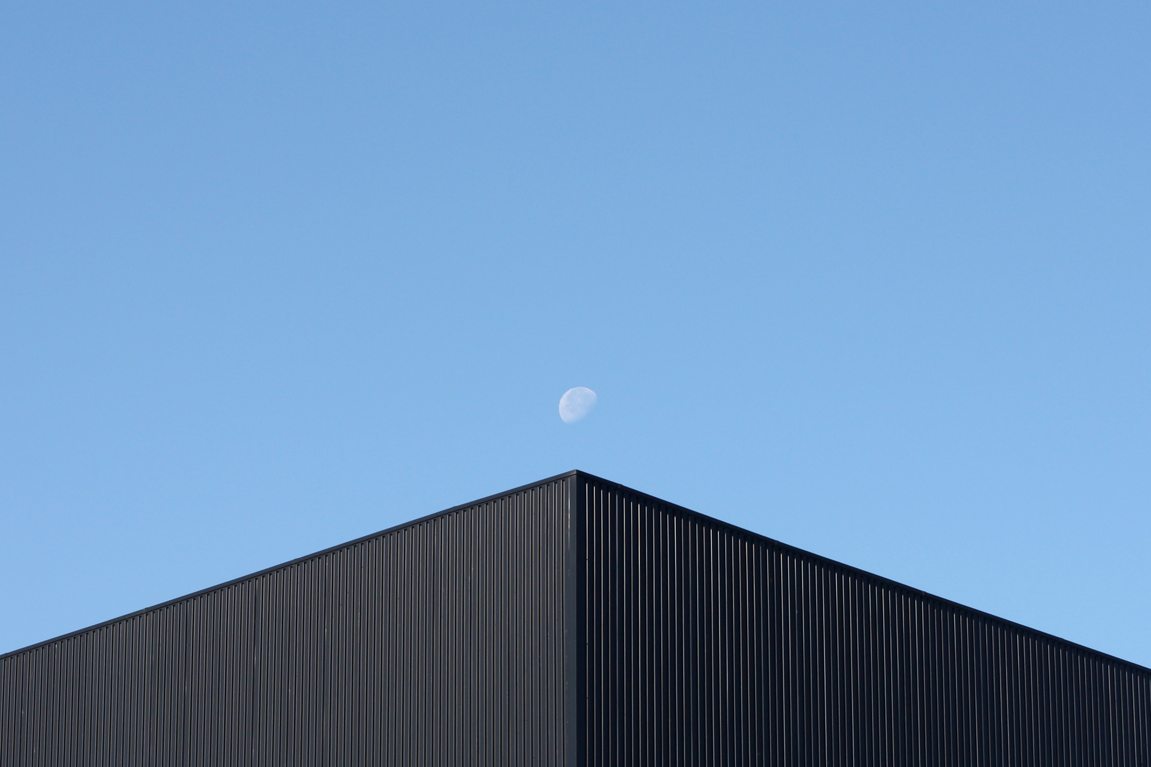 The Moon aligned with the MC2 (Maison de la Culture) in Grenoble.